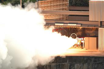 VLS motor